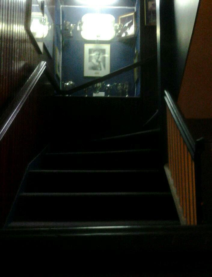 Britannia Yacht Club, Ottawa, Ontario stairwell with Frank Amyot photo and trophies